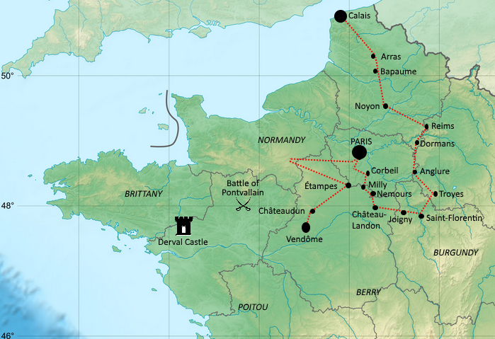 Sir Robert Knolles' campaign and chevaucheé through northern France, August-Sept. 1370. Based on a slightly retouched version of User:Sting's File:France relief location map.jpg. Includes User: Staszek Szybki Jest's file, File:Legenda miejsce bitwy.svg, and a recolouring of User:mcgill's File:Map symbol historical 02.png.